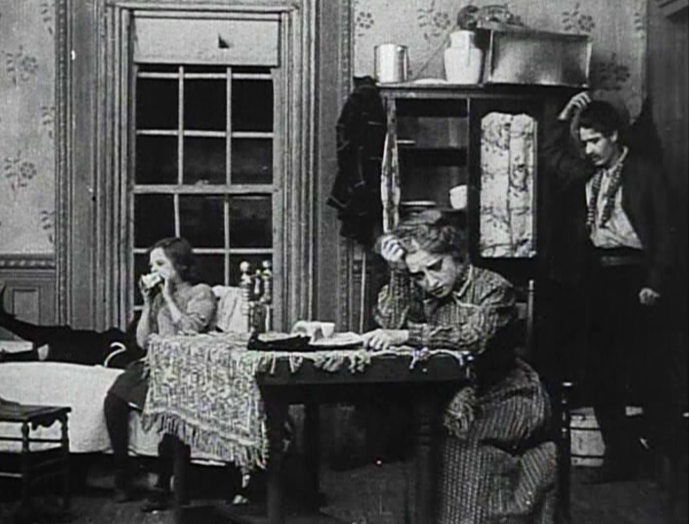 Still of A Trap for Santa, 1909 silent film by David W. Griffith